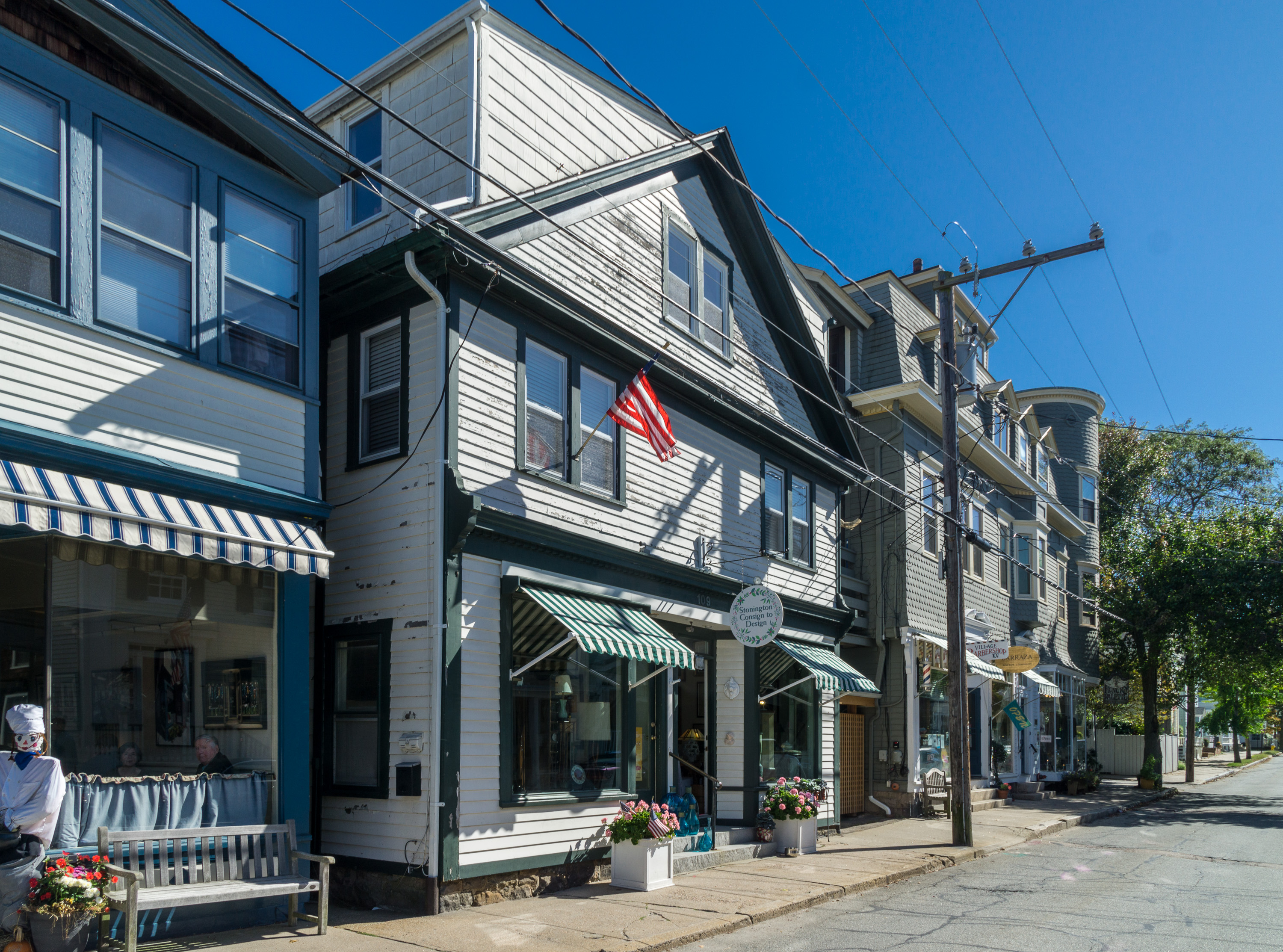 Shops in Historic Stonington, Connecticut along Water Street